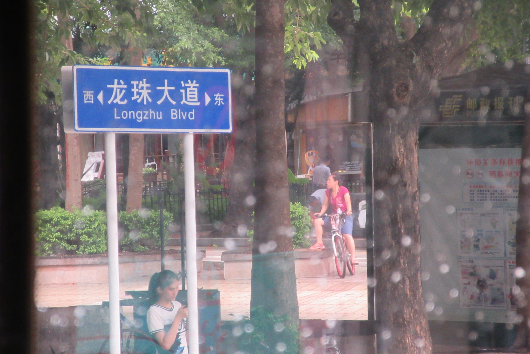 SZ 深圳 Shenzhen bus M474 view 龍珠大道 Baoshen Road in July 2017